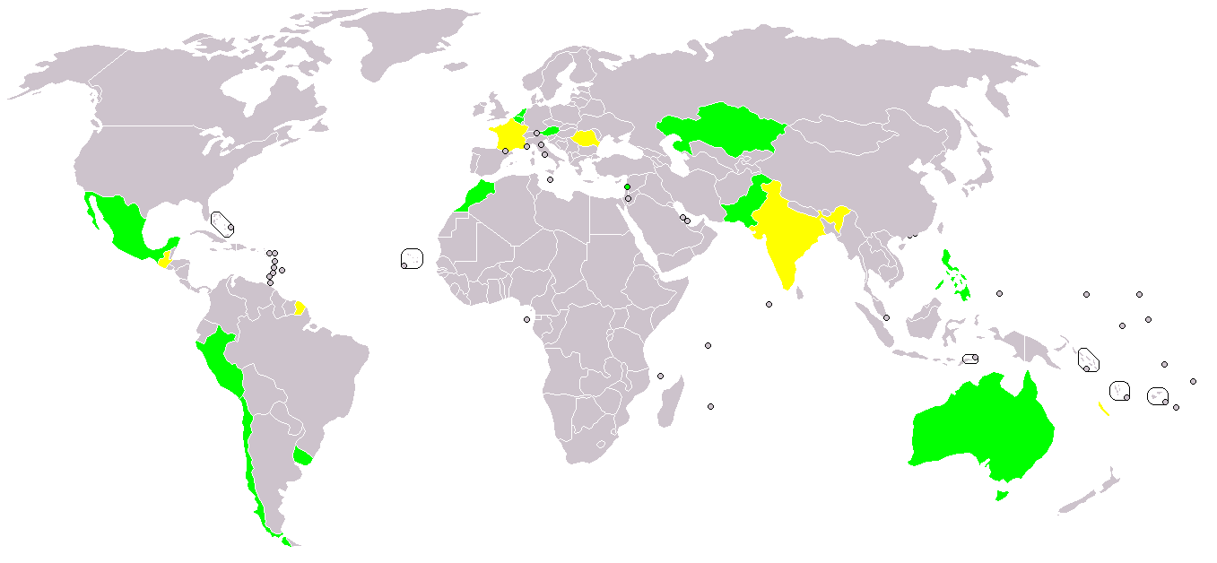 green - ratified; yellow - signed, but not ratified